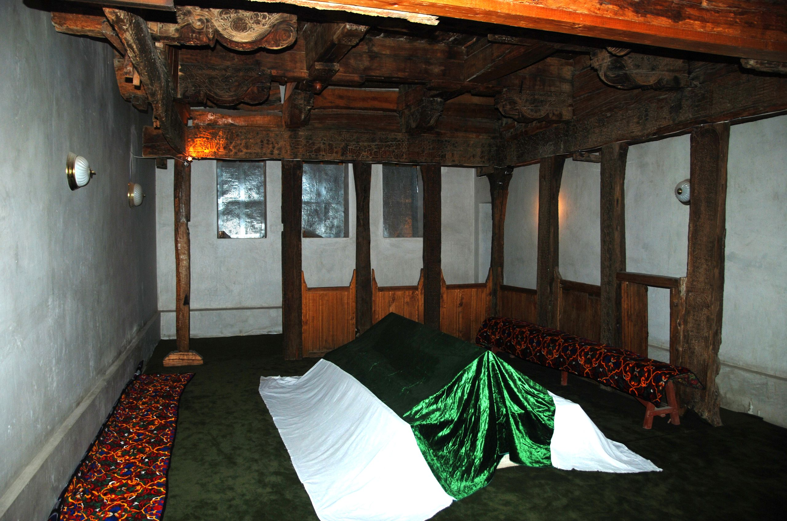 Chorku, Isfara district, mosque of Hazrat-i Shoh